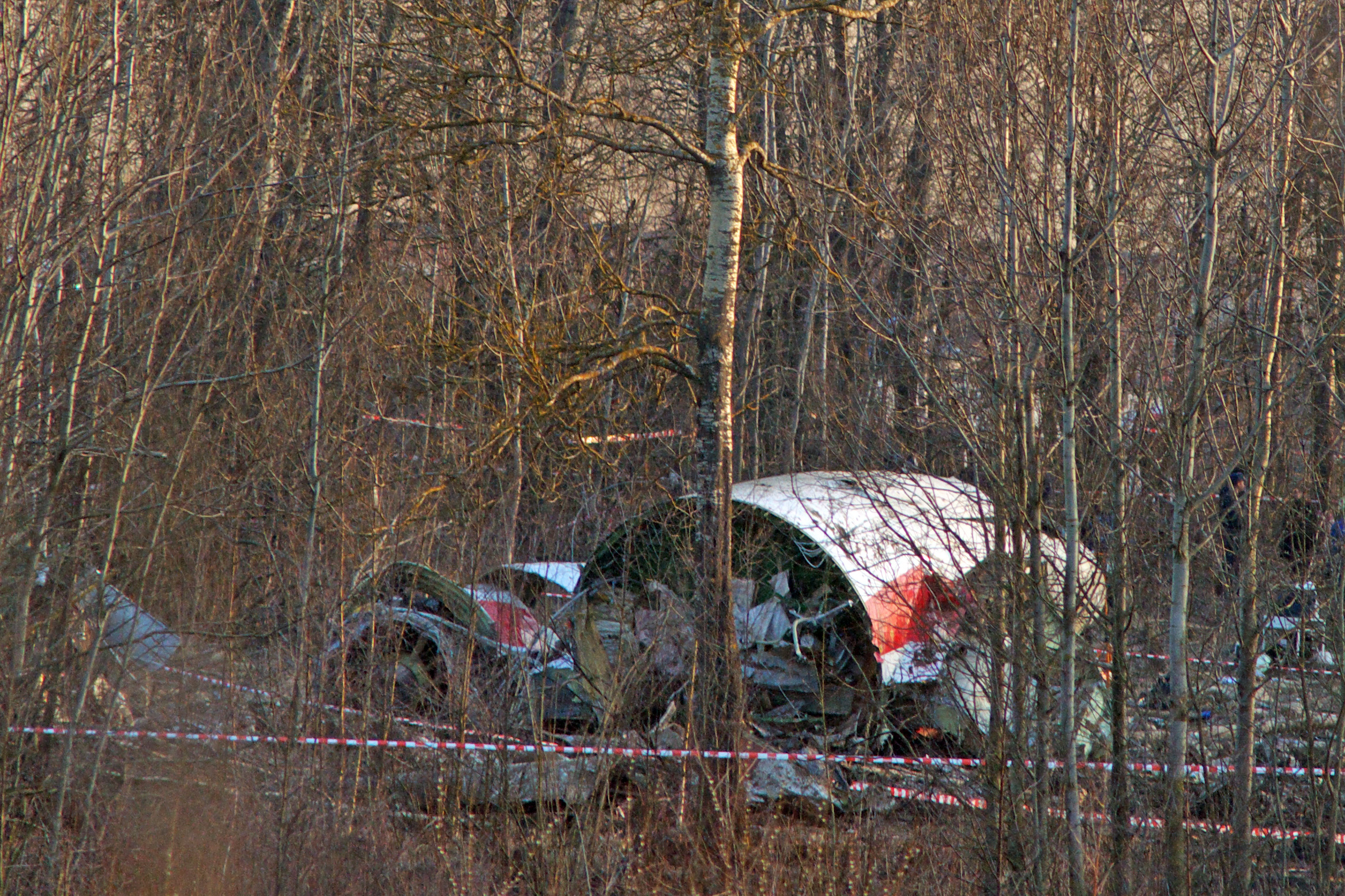 Fragments of TU-154 the Polish president at the crash site in Smolensk